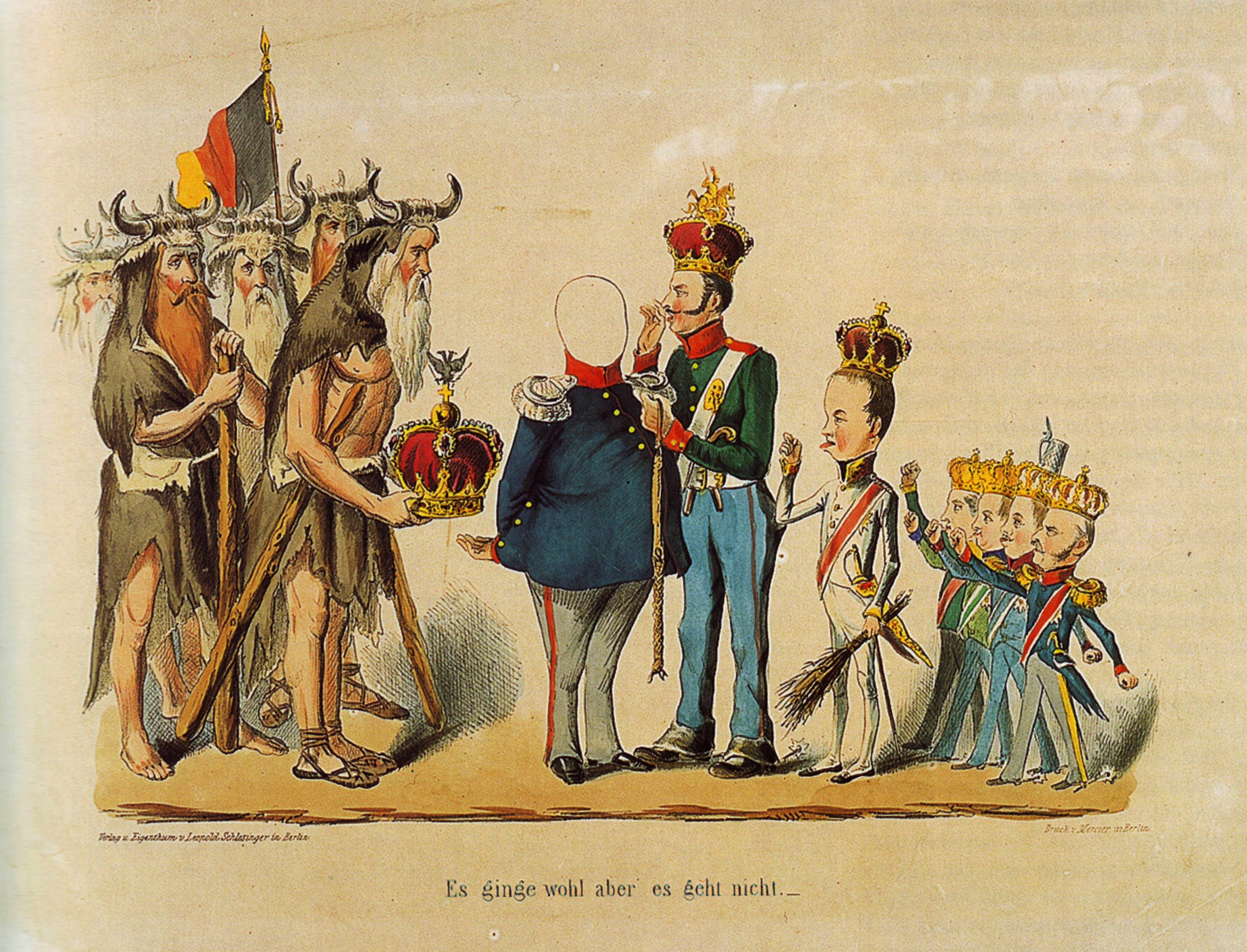 Kolorierte Lithographie, Leopold Schlesinger Berlin (Verlag). “Es ginge wohl aber es geht nicht!” (King of Prussia refuses to accept the imperial crown of Germany, offered to him not by hos fellow monarchs, but by "the people"; 1849.)